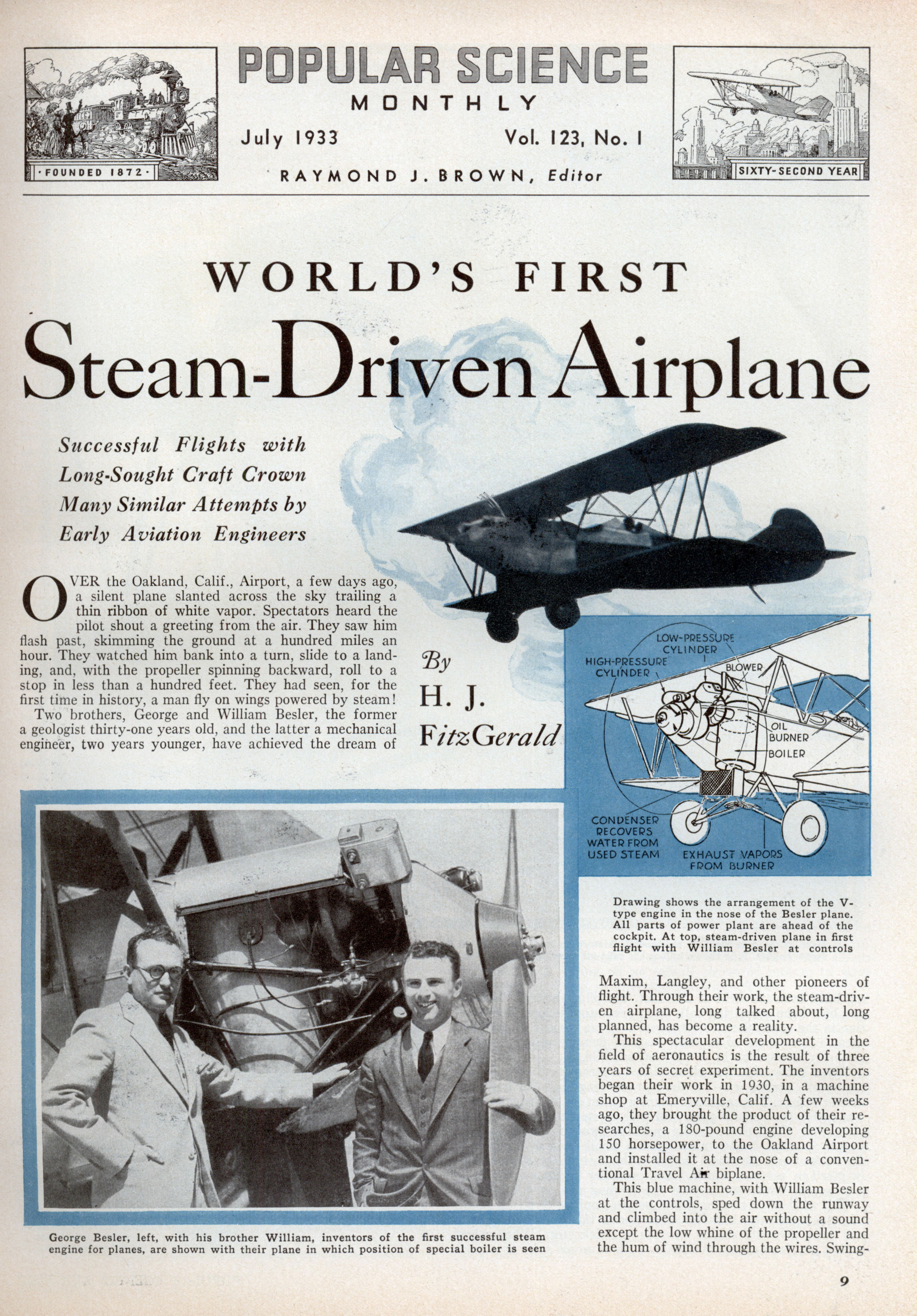 Steam plane pictures. World's first steam driven airplane